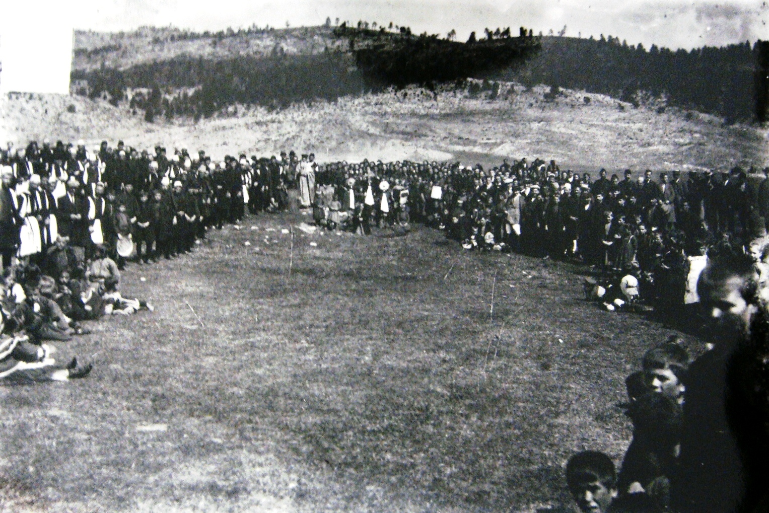 Fair in the village Ksirolivadon. 1913 This media file is produced by Wikipedian in Residence in Category:Wikipedian in Residence at DARM in 2016.